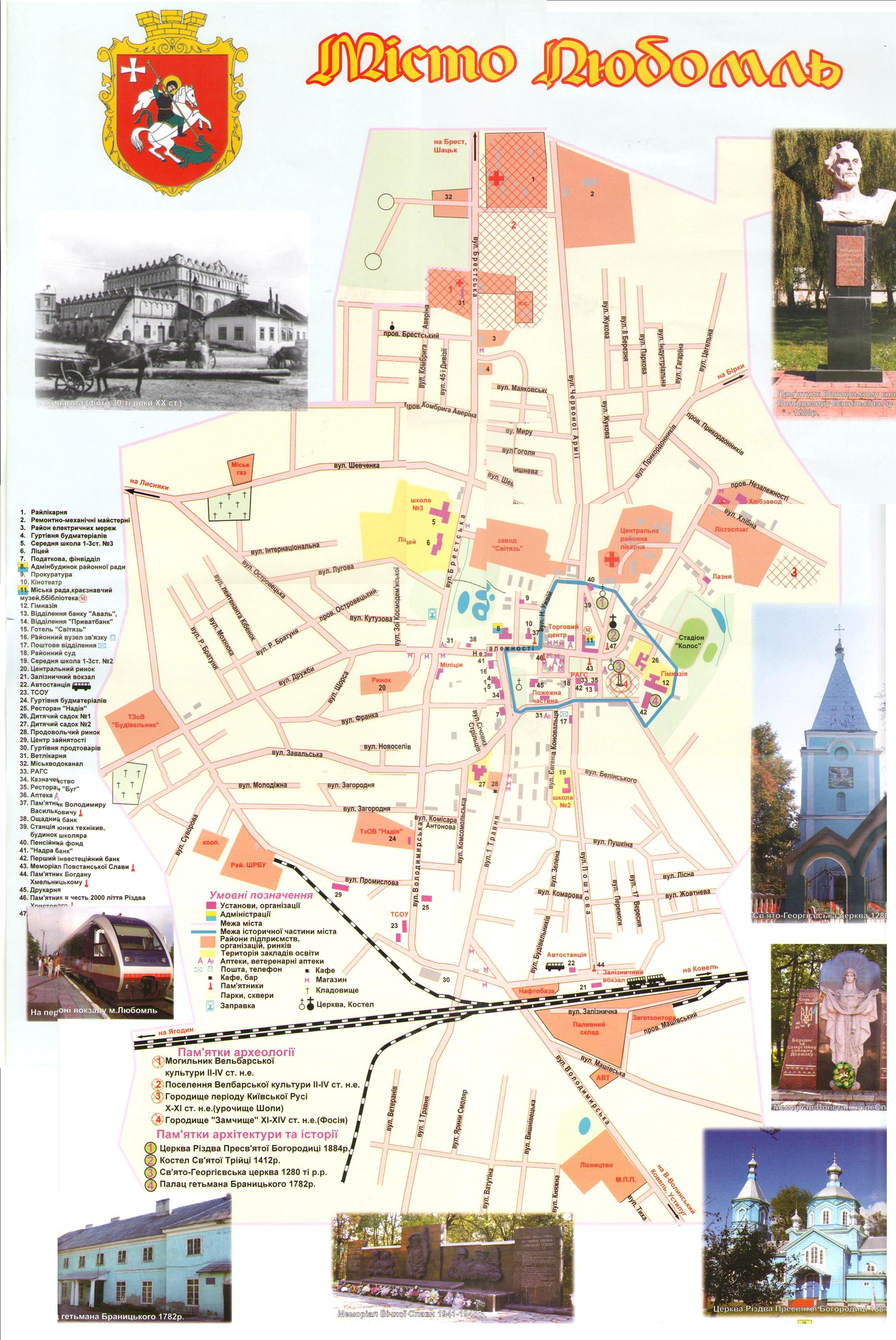 Map Lyuboml